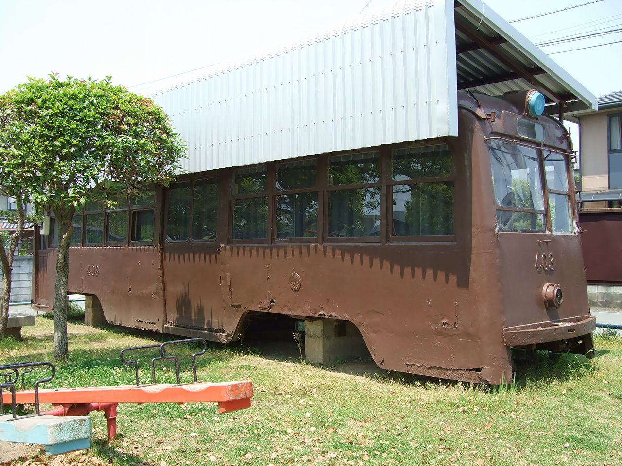 Kumamoto City Transportation Bureau tram Type400 No.403 Location:in Kumamoto City, Kumamoto, Japan